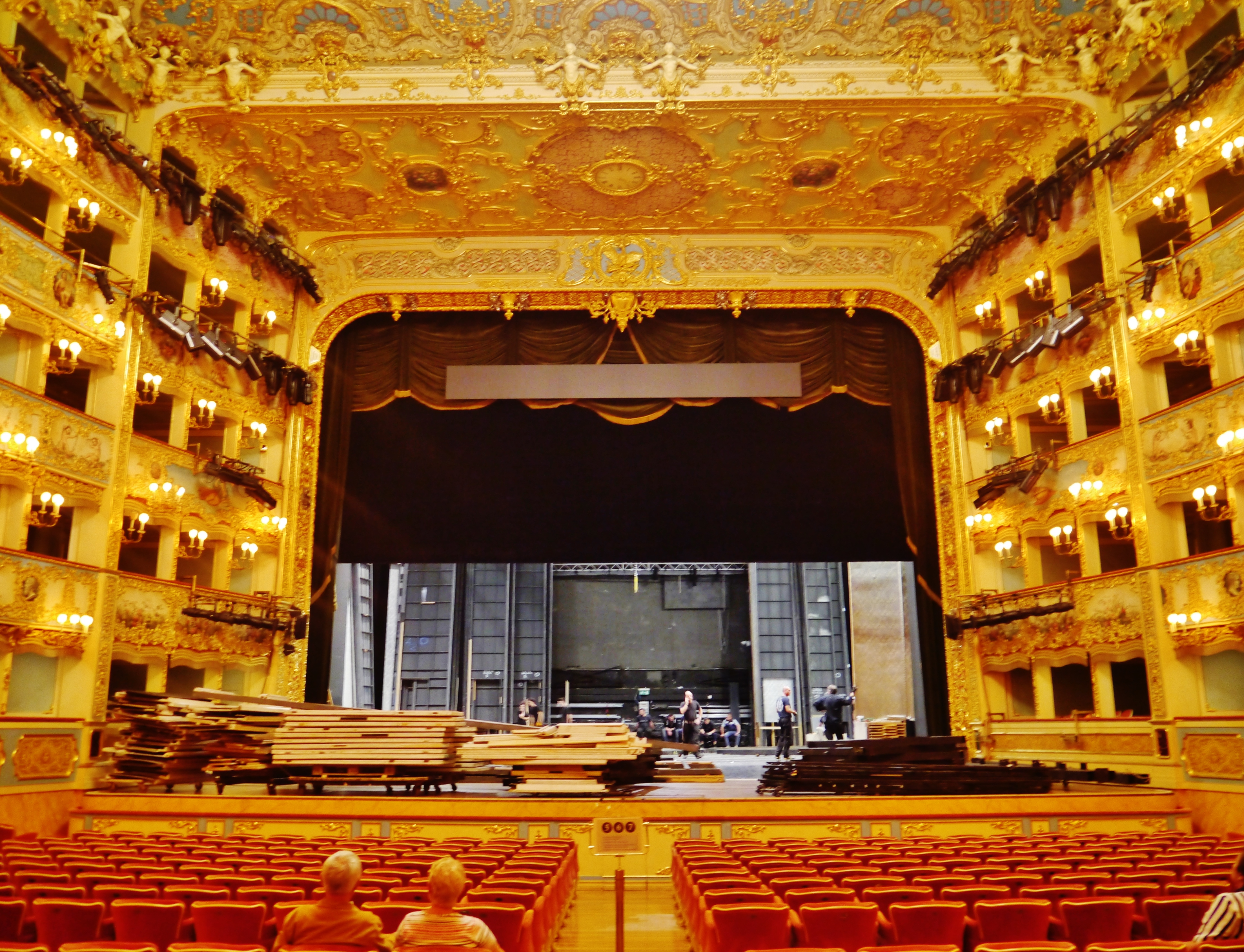 Grand Hall of the Fenice Theatre, Venice, Metropolitan City of Venice, Region of Veneto, Italy